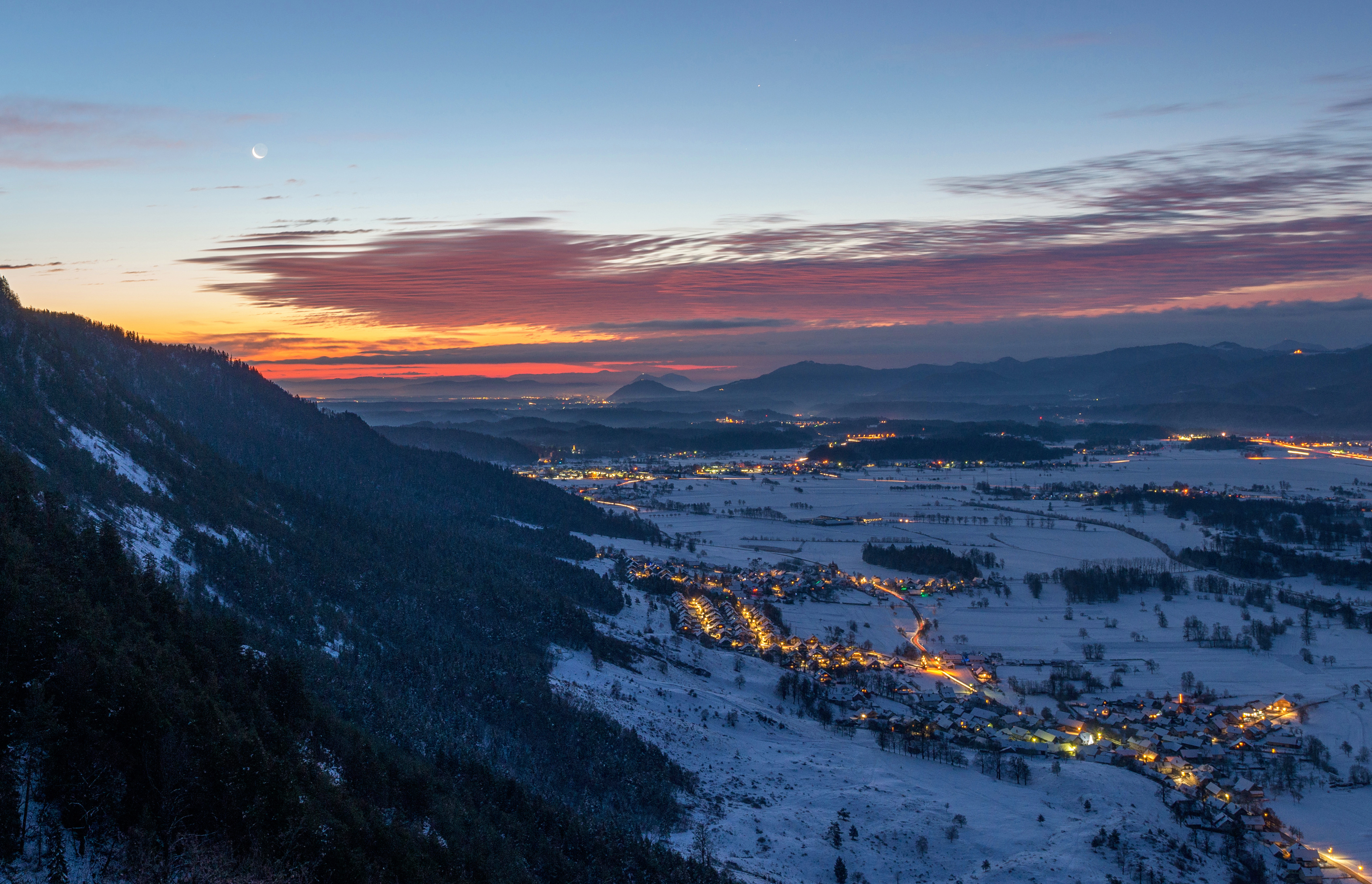 Villages of Kašarija in a very early morning.